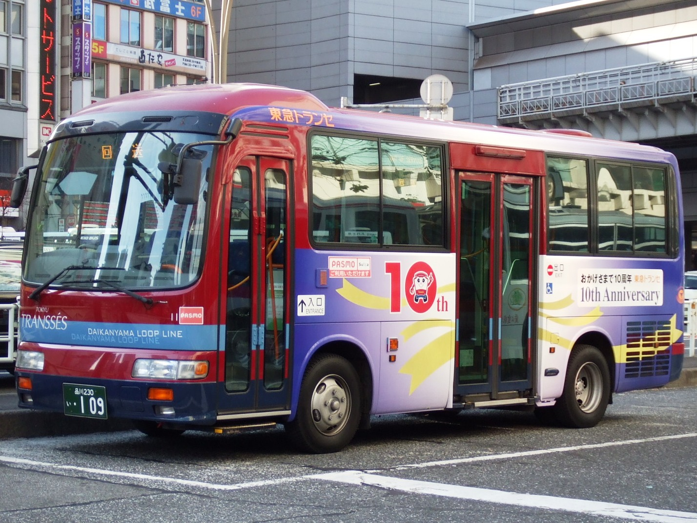 TOKYU TRANSSÉS 10th Anniversary Coloring,TOKYU TRANSSÉS,Japan